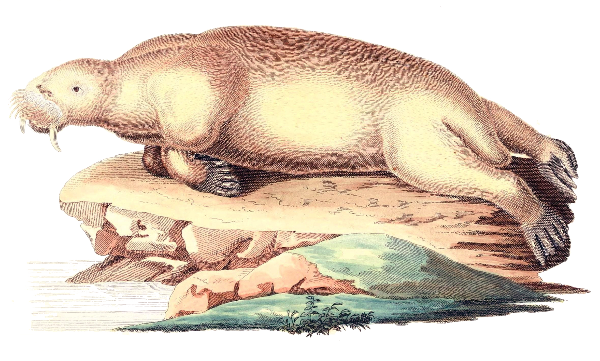 Walrus by Peter Simon Pallas